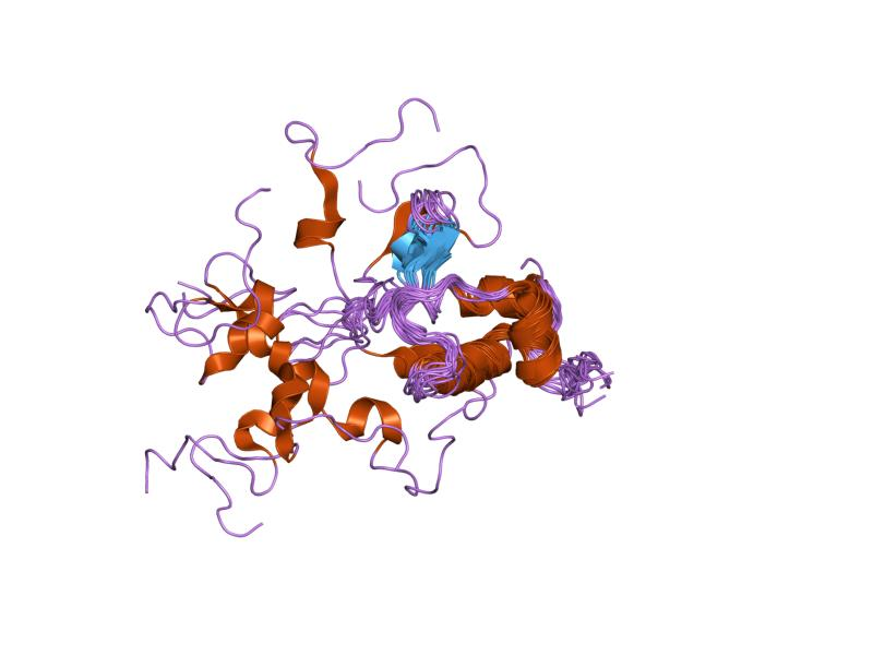 Cartoon representation of the molecular structure of protein registered with 1v4r code.